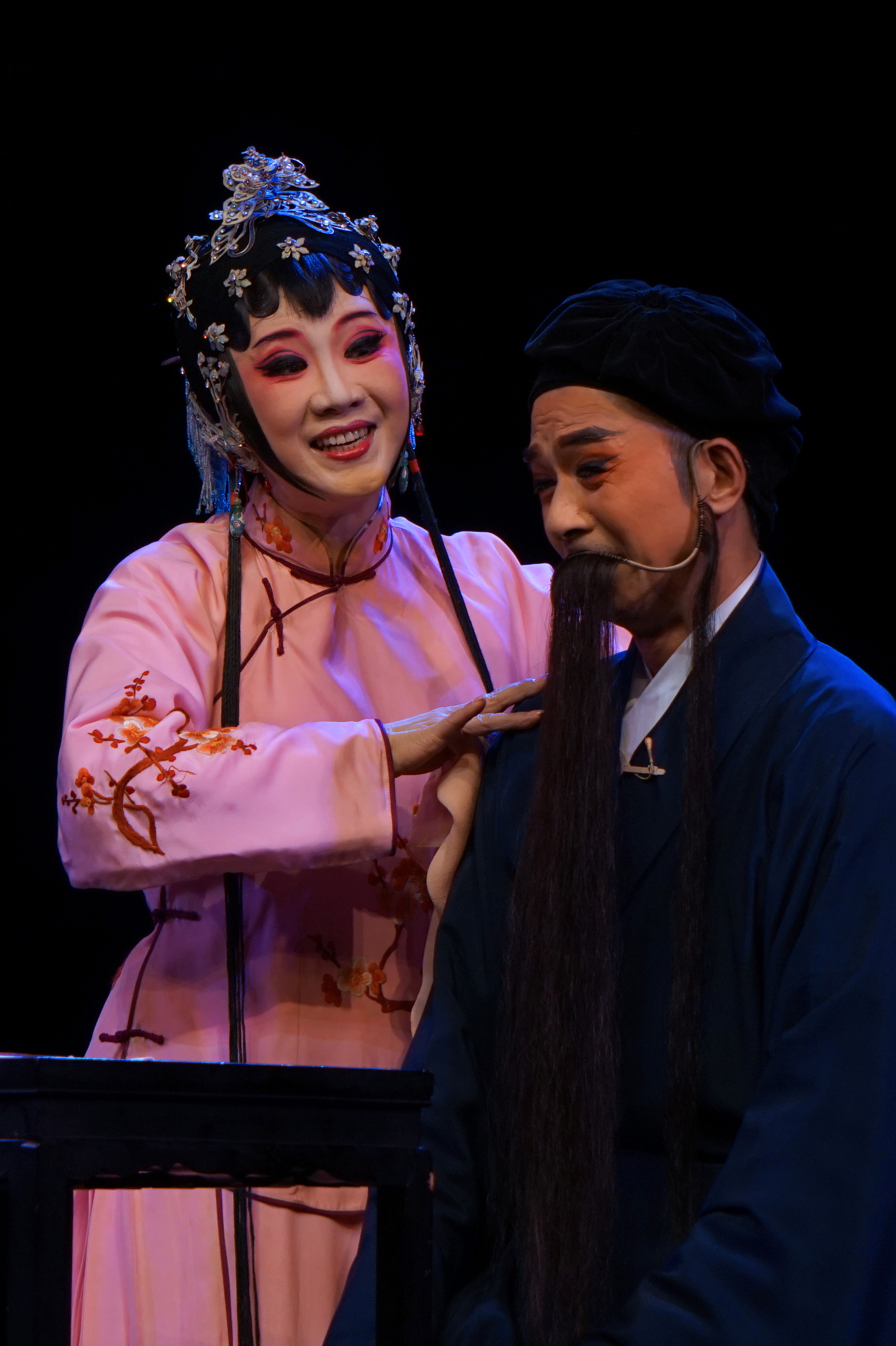 A scene from Zhu Maichen. The female in pink is Zeng Jingping, a very famous liyuan opera actress.